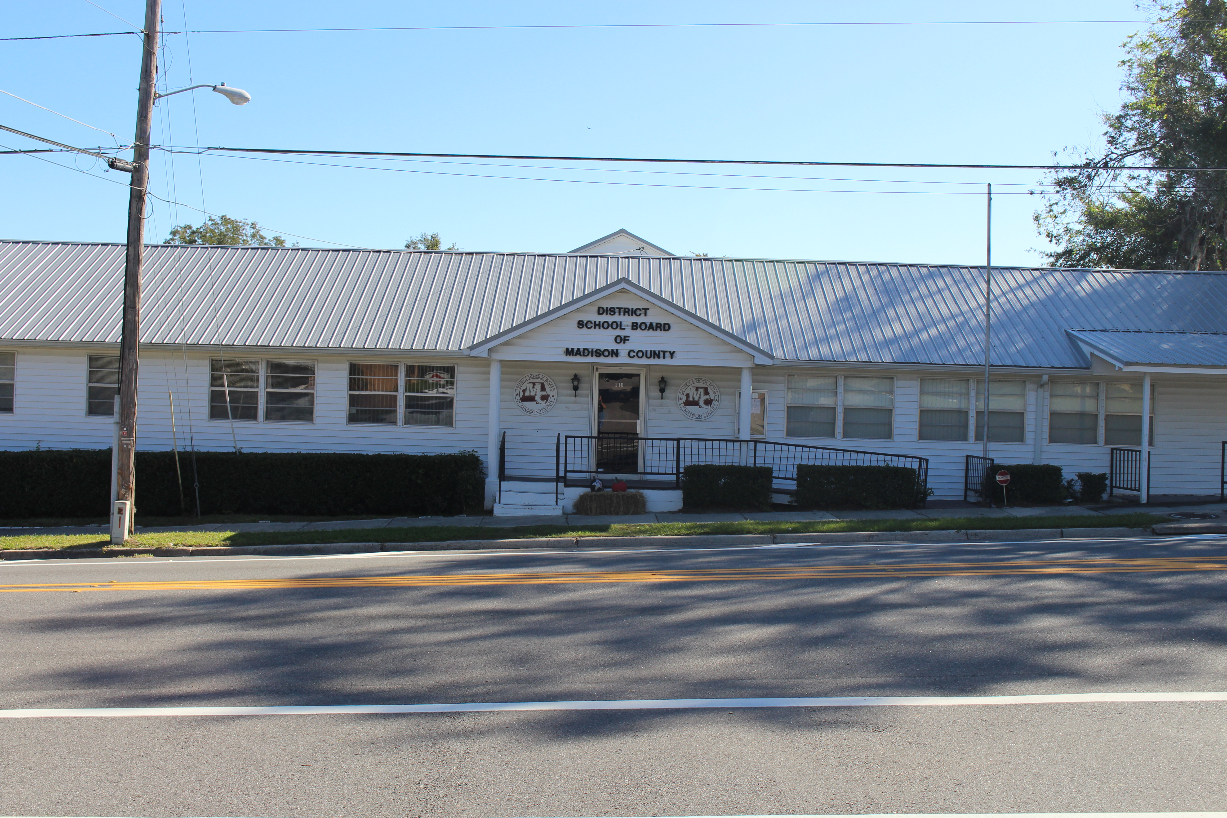 Madison County School Board, Madison County, Florida